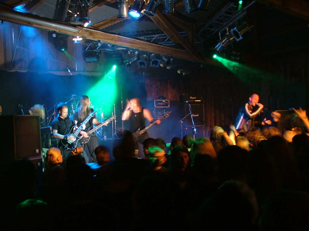 Danish melodic death metal band Mercenary